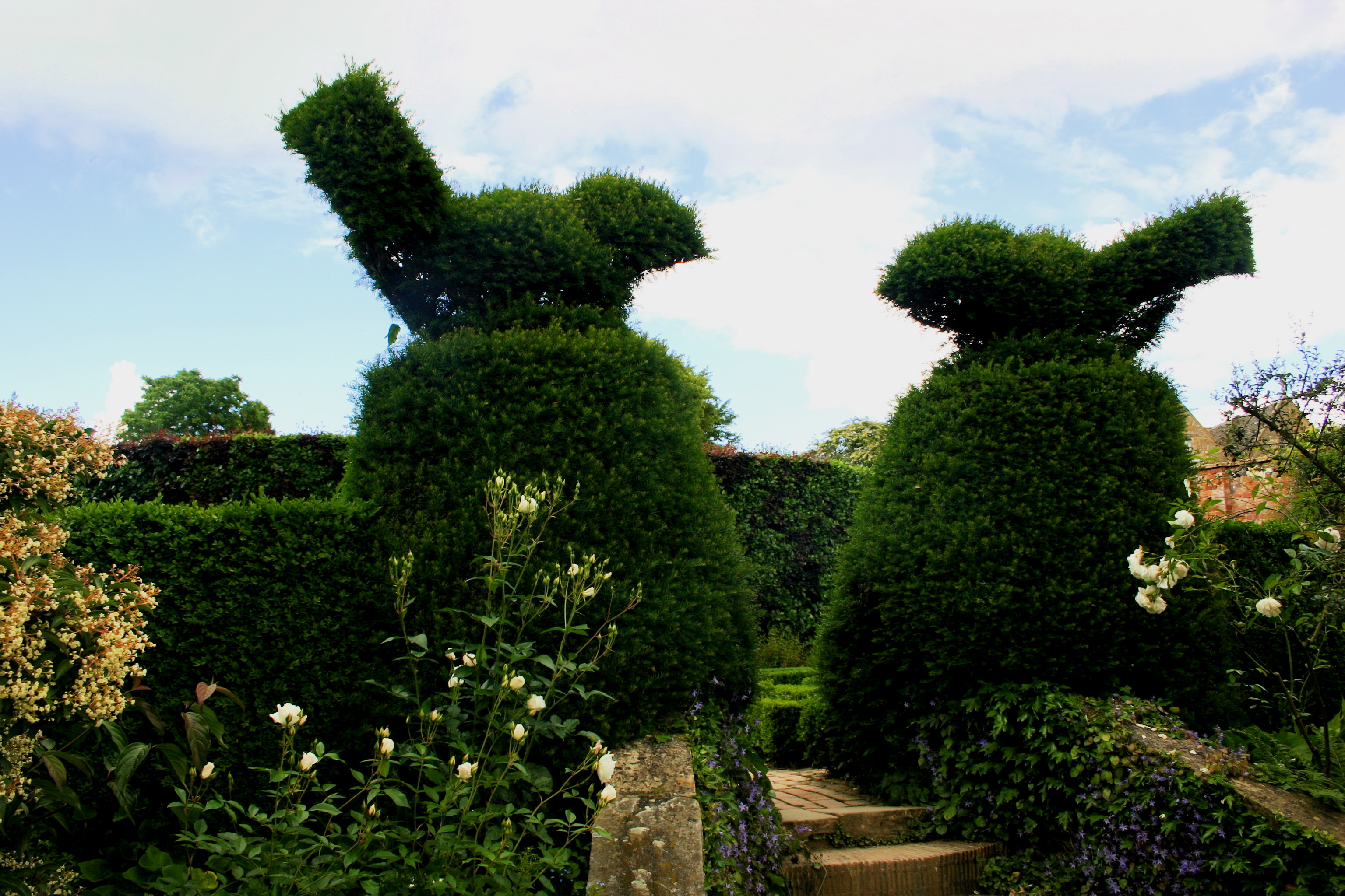 Taken by me, this picture shows the signature bird topiaries found in Hidcote Manor's gardens.